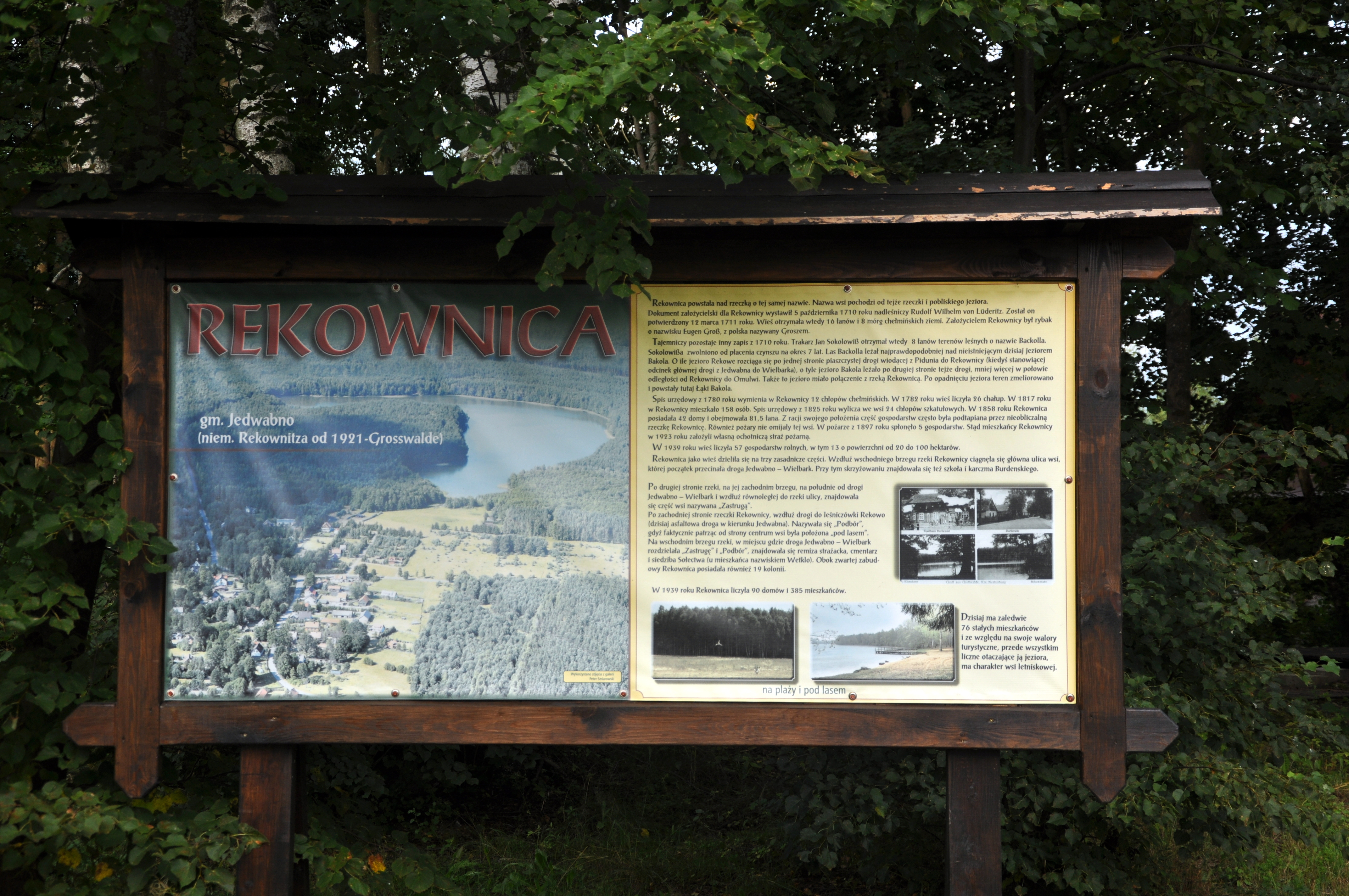 A memorial plaque in Rekownica, with a brief history of the village (in Polish)